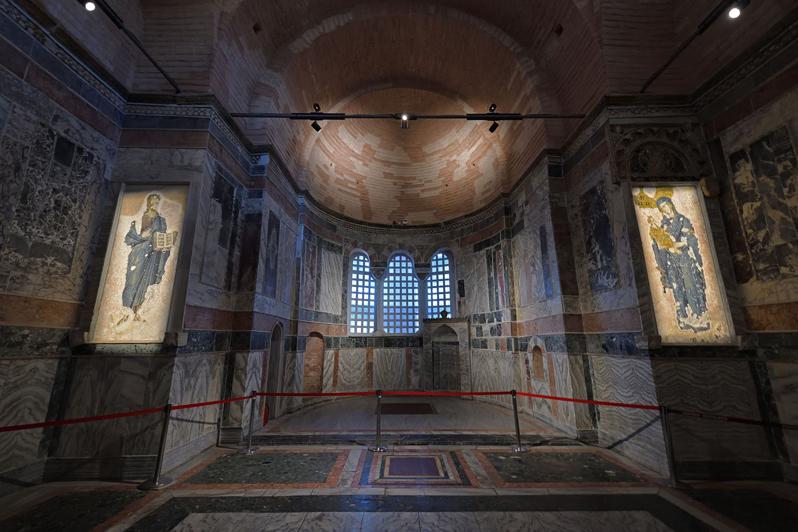 One either side of the apse there is a mosaic with Christ to the left, Mary with child to the right.